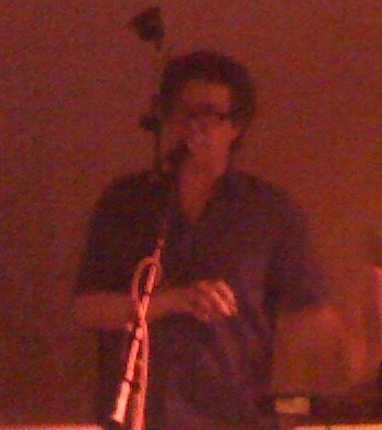 Picture of Mr. Rehberg taken at a concert in Linz.